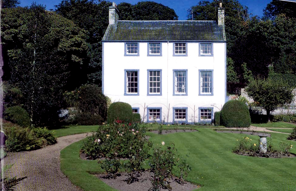 Craigfoodie House